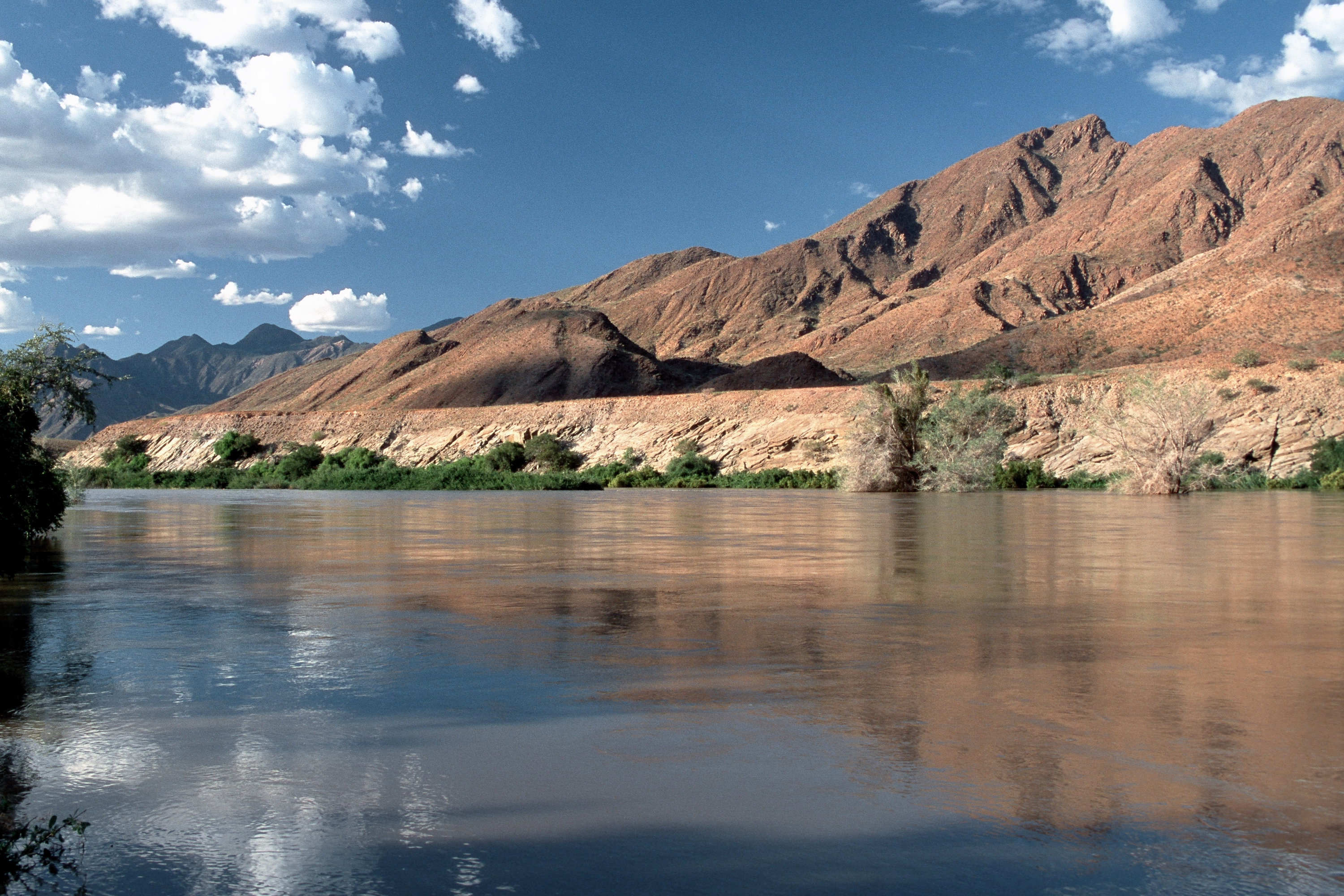 Kunene near Epupa